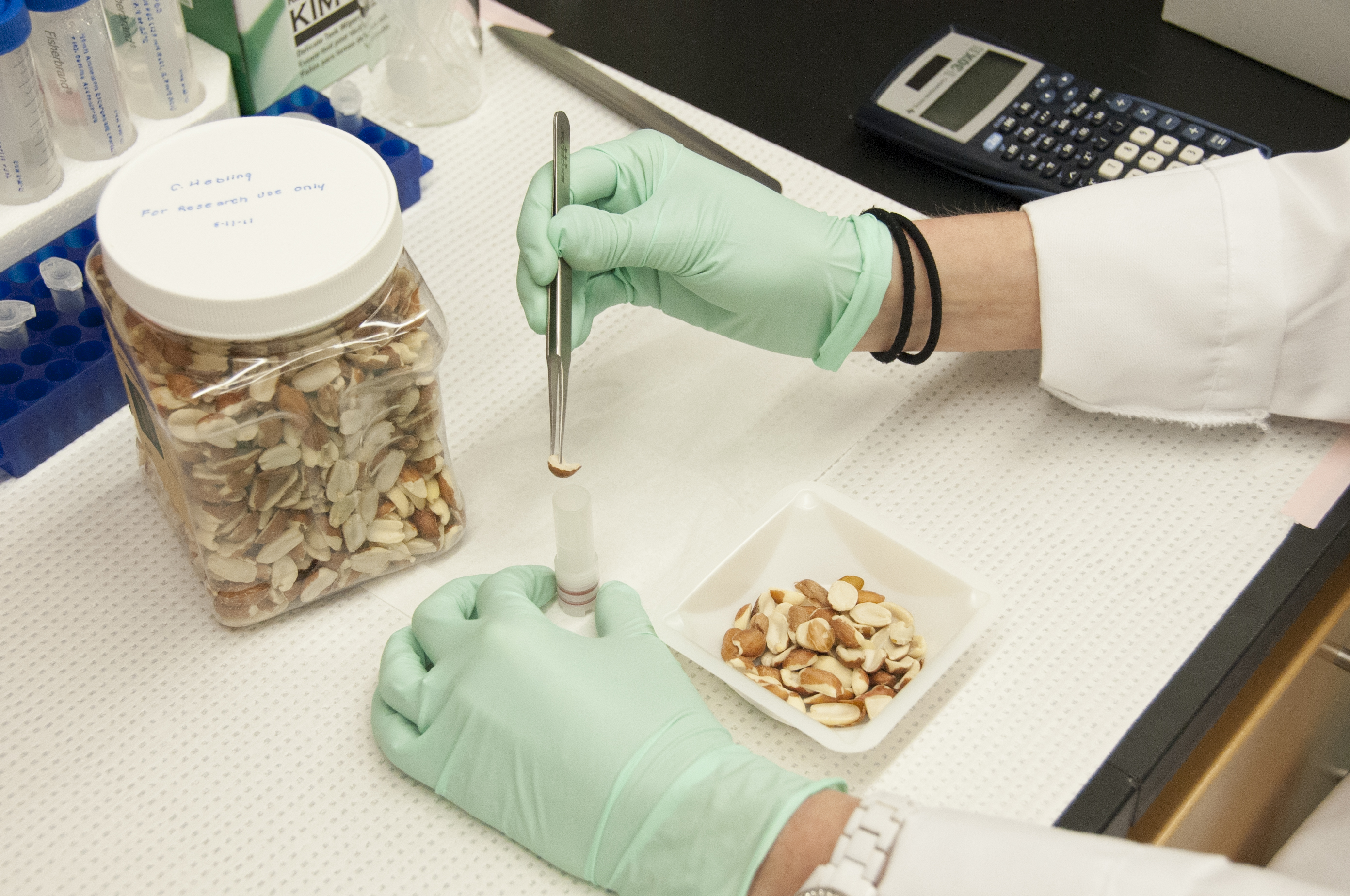 Preparation of raw peanuts for analytical sample extractions in the characterization of allergen proteins by liquid chromatography and mass spectrometry. Hundreds of FDA scientists are working to develop the tools needed to keep bacterial and chemical contaminants out of the food supply, and to rapidly identify the disease-causing bacteria that do infiltrate foods and cause outbreaks of foodborne illnesses. Among them are the researchers at FDA's Center for Food Safety and Applied Nutrition (CFSAN), in College Park, Md.